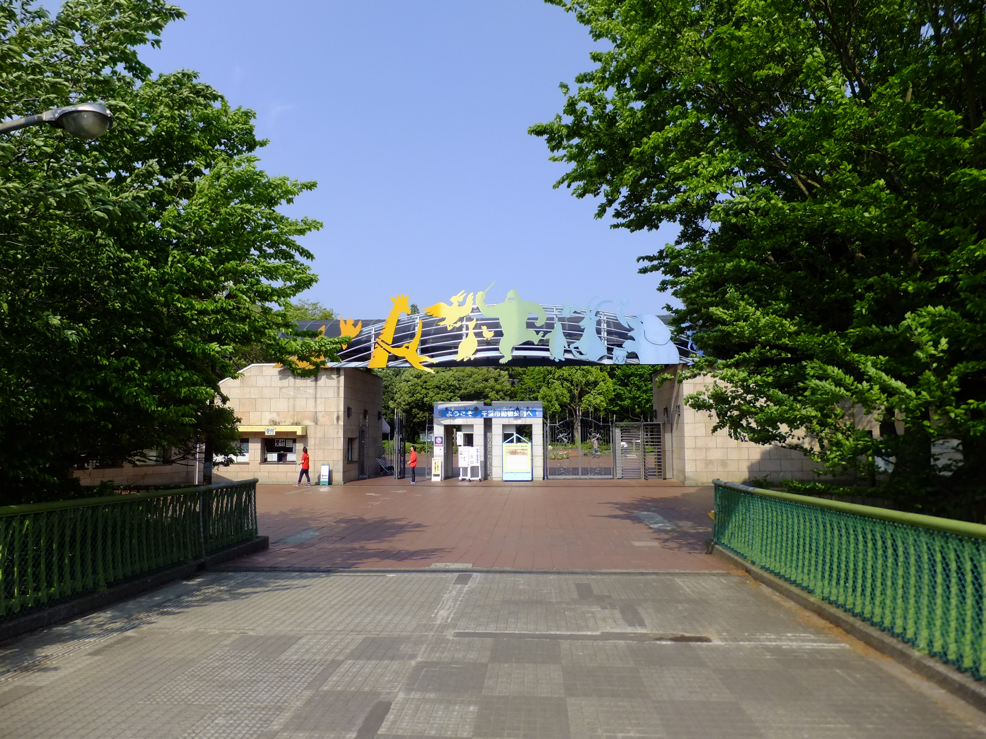 Main gate of Chiba Zoological Park, in Chiba City, Japan.